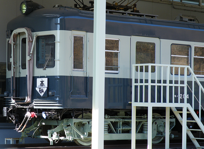 Keisei emu type 200 at Sogo Sando, Japan.